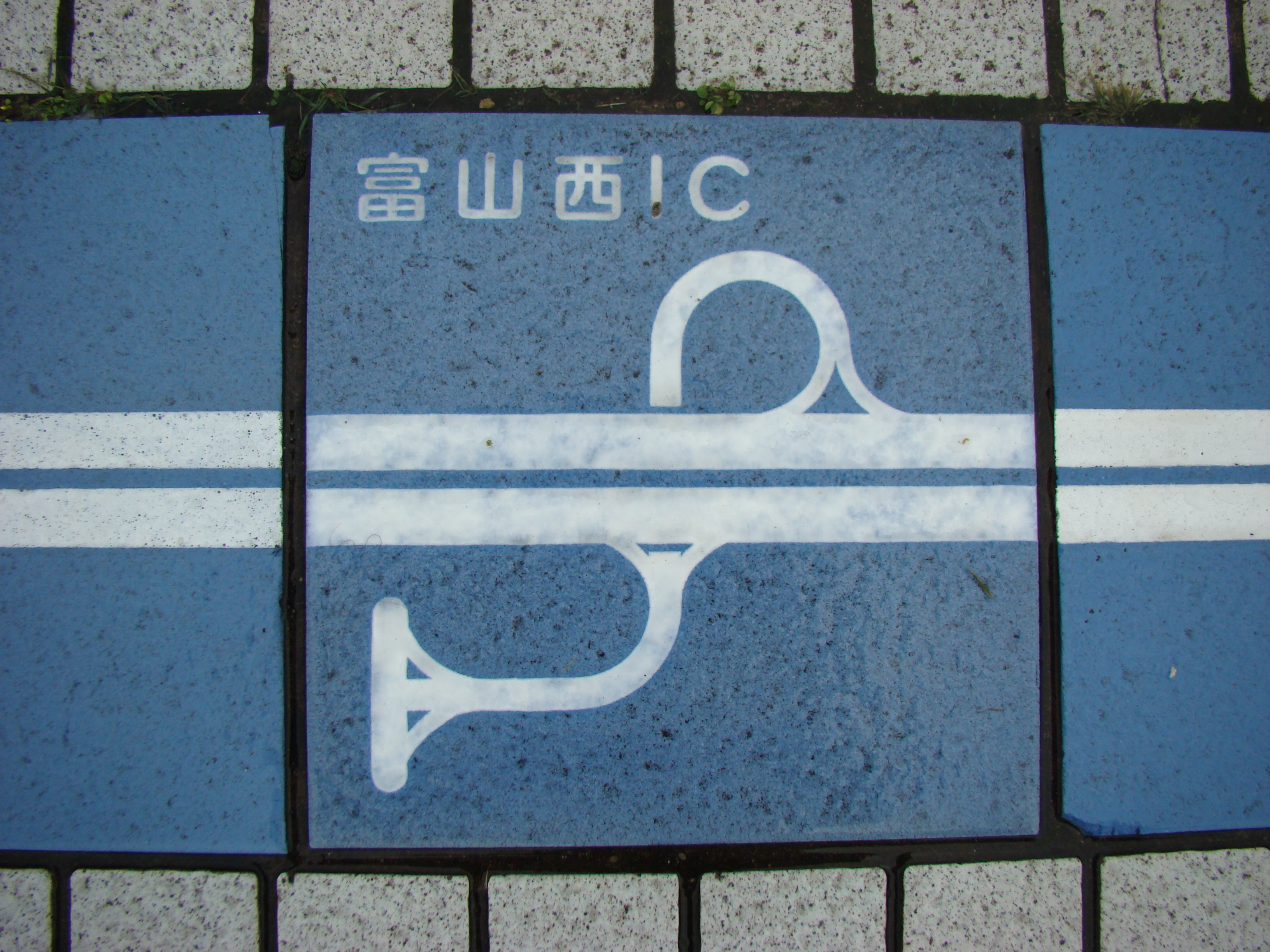 The tile which designed a shape of the Toyama-Nishi Interchange（Hokuriku Expressway）（There is this tile in Hokuriku Expressway Nadachi-Tanihama Service Area.）. Place - Chayagahara,Joetsu City,Niigata Prefecture,Japan Date - August 9, 2009 Format - JPEG, 3264x2448pixel, 24bit colors. Photographer - NALA Wiki (talk)